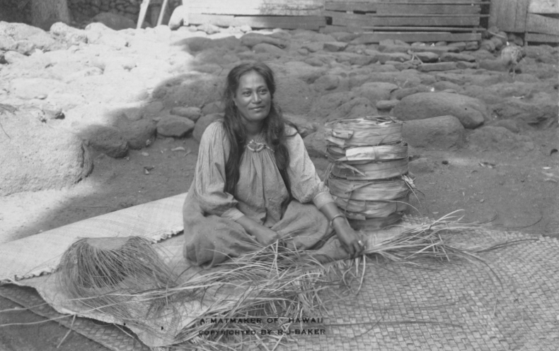 Pila`a Kilani weaving a lauhala mat, Pukoo, Molokai. Hawaiian woman weaving lauhala mat with rolls of prepared leaves called kūkaʻa (cf. Lauhala: Weaving).[1]